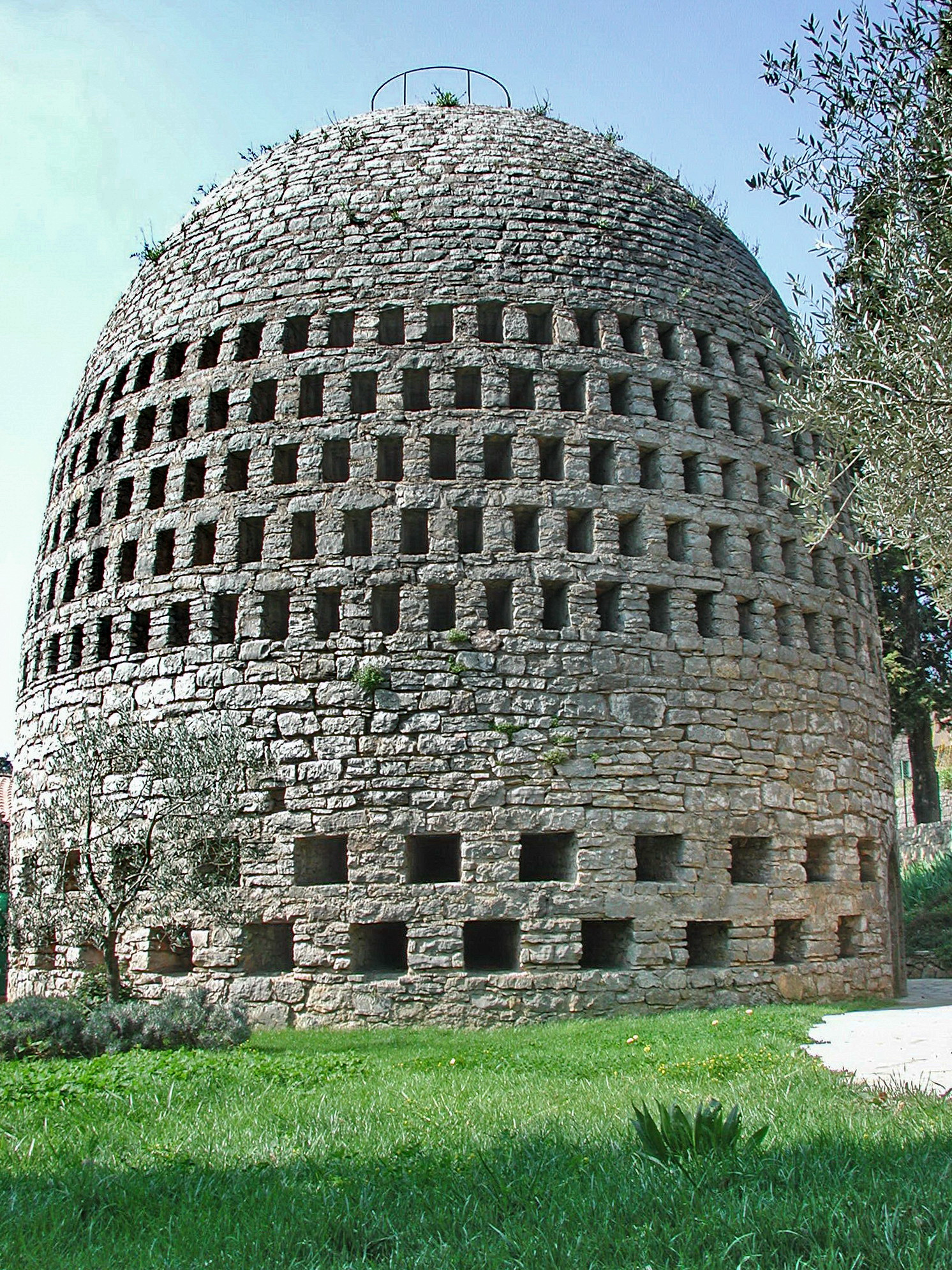 Dew tower of belgian engineer Achile Knappen in Trans-en-Provence Var